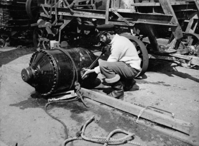 George Gosse defuses a German mine at Bremen, April 1945. (Original IWM caption: Lieutenant George Gosse, RANVR, of Adelaide, Australia, removing the clock of the first pressure magnetic mine to be recovered at Bremen after rendering it safe under water. He is a member of a British Naval P Party, the "human minesweepers" who cleared Europe's liberated ports.)